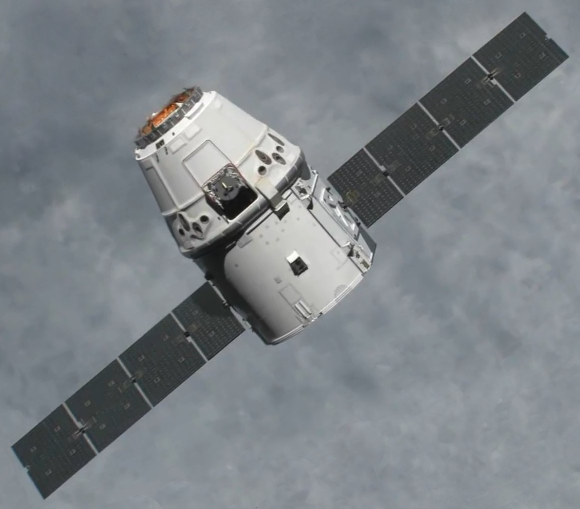 Screenshot from HD video of the COTS 2 mission as Dragon approached the ISS with its GNC bay door open.